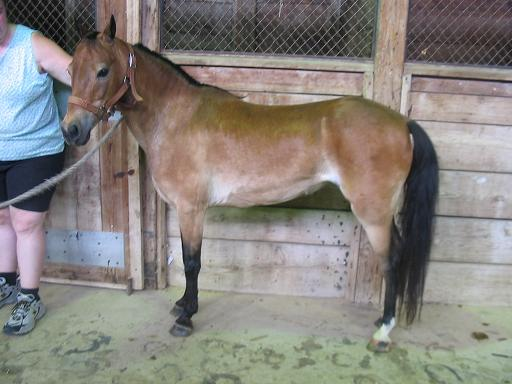 a bay American Shetland pony showing pangare traits. registered name of Leland Supreme Chassis. Picture taken by Elizabeth M.E. Hall of fire song ponies, iowa